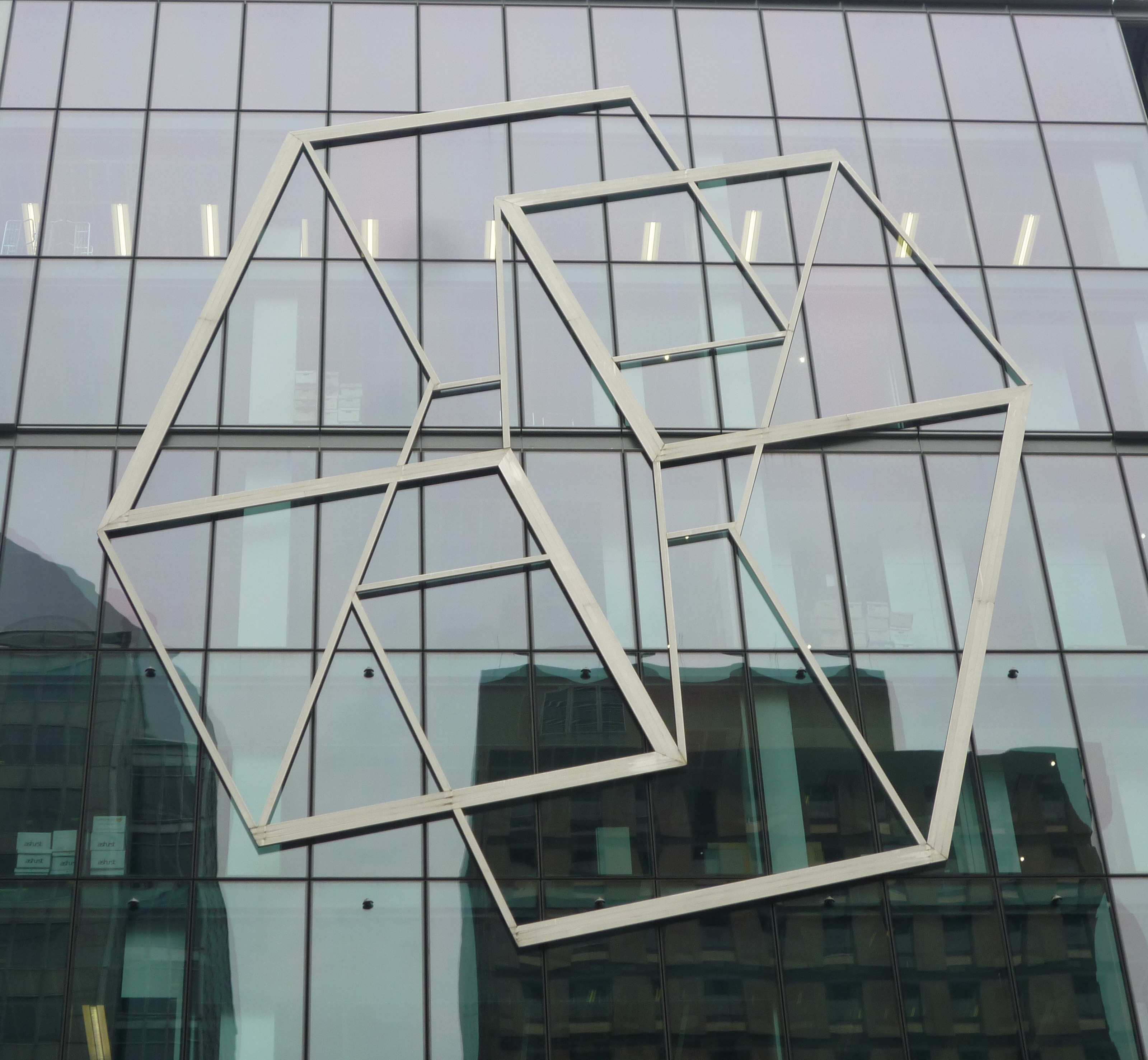 Aluminium sculpture on wall overlooking MLC Plaza in Sydney